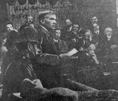 John MacLean delivering his famous ‘Speech from the Dock’, May 9, 1918.